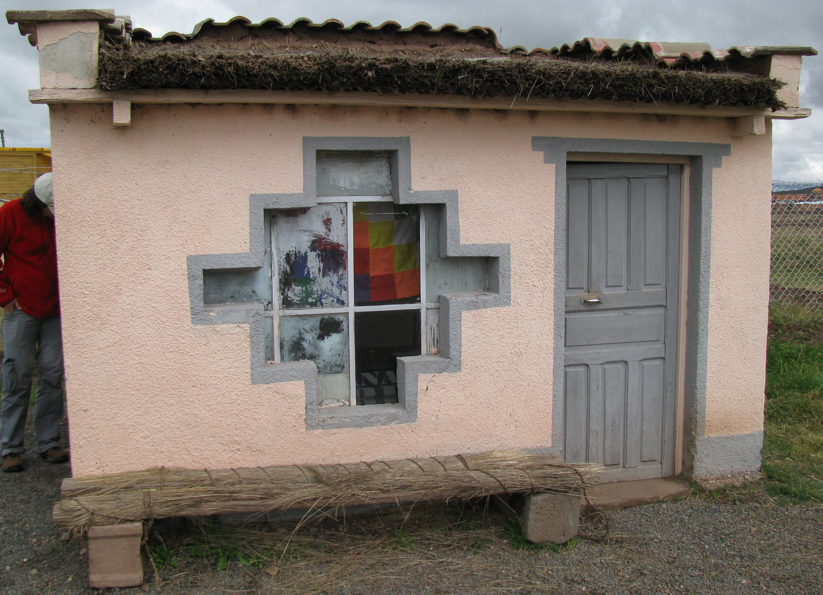 Tiwanaku